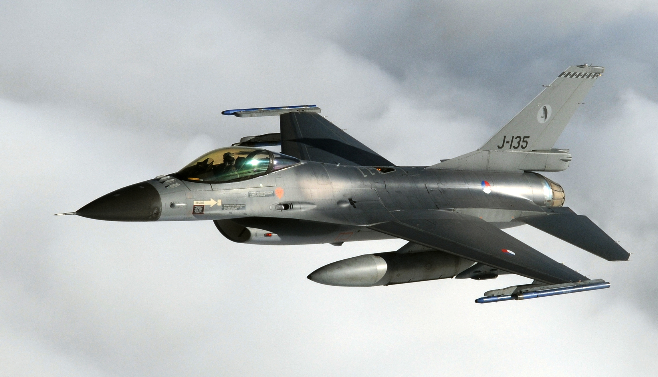 A Royal Netherlands Airforce F-16 Fighting Falcon flies in support of Exercise Bold Avenger over the North Sea on 23 September 2009